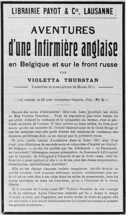 1915 ad for Aventures d'une infirmière anglaise en Belgique et sur le front russe by Violetta Thurstan